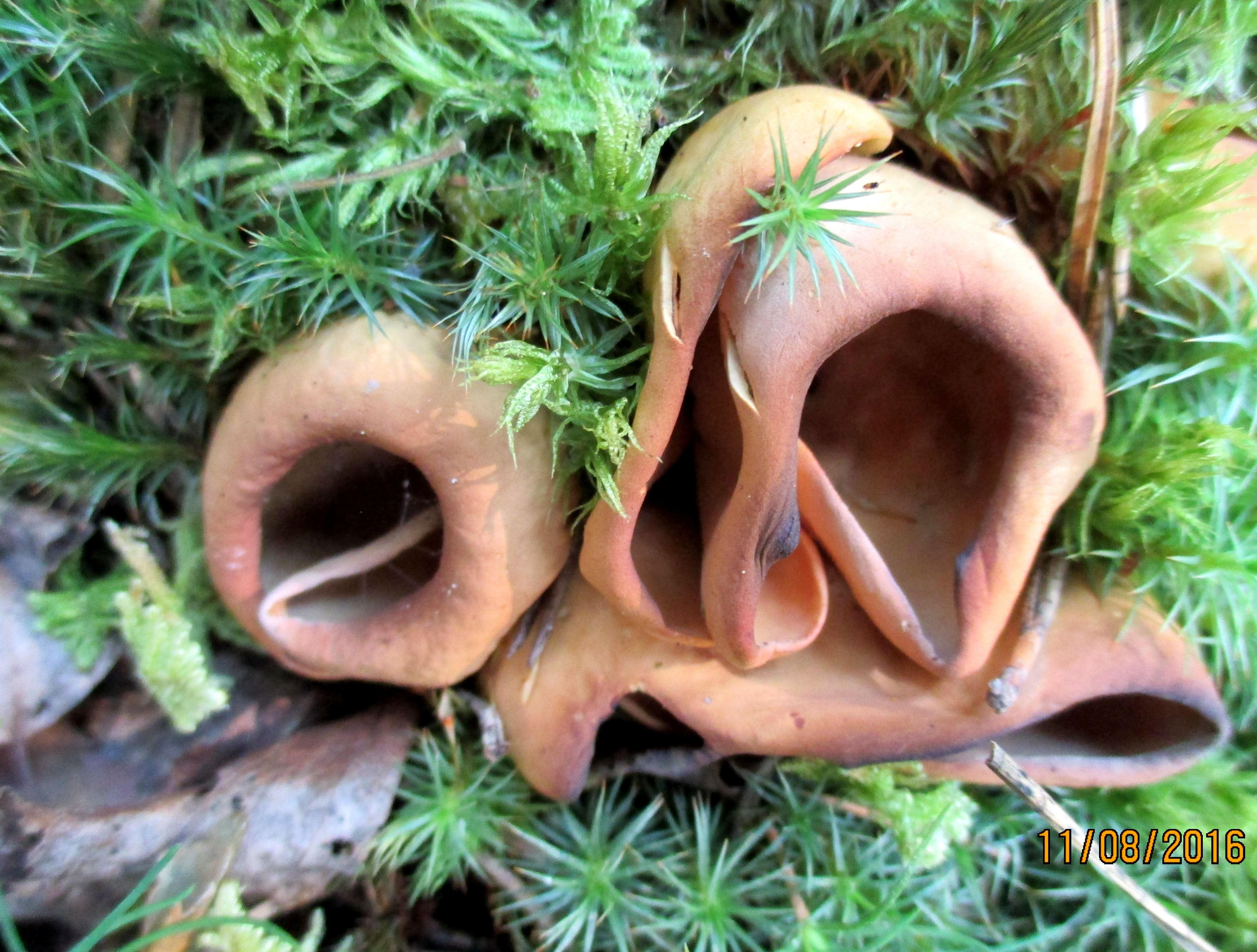 Helvella acetabulum (L.) Quél. Image location: Borovoye National Park, Akmola District, Kazakhstan It is in pine-tree forest with rare birches. Recognized by sight For more information about this, see the observation page at Mushroom Observer.